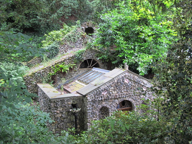 Exterior of Scott's Grotto, a Grade I Listed building in Ware, Hertfordshire, United Kingdom